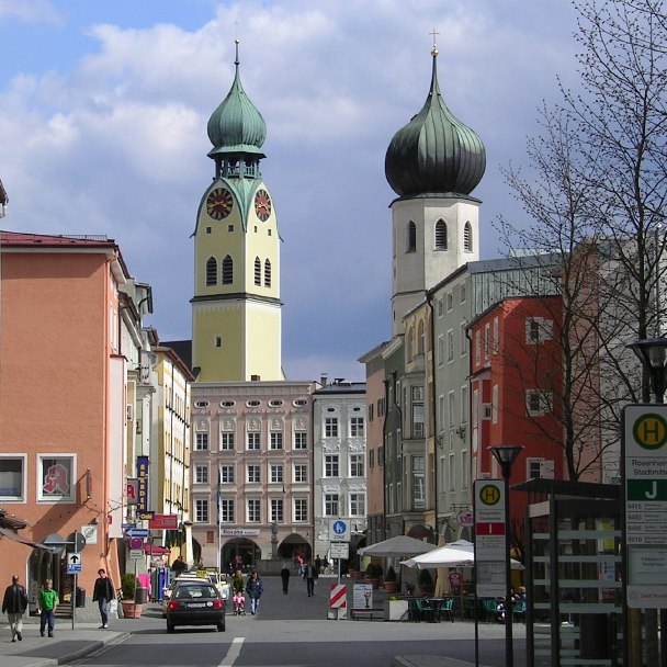 Rosenheim, churches of St Nikolaus and Holy Spirit.